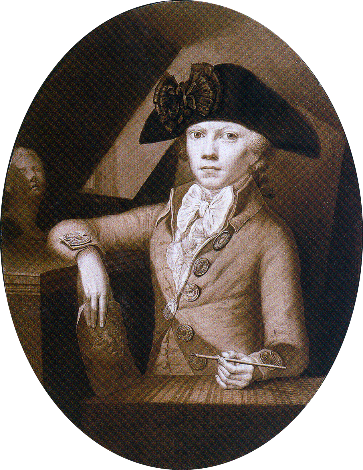 Selfportrait of the painter, draftsman and lithographer Ludwig Rullmann (1765–1822) from Bremen, Germany.